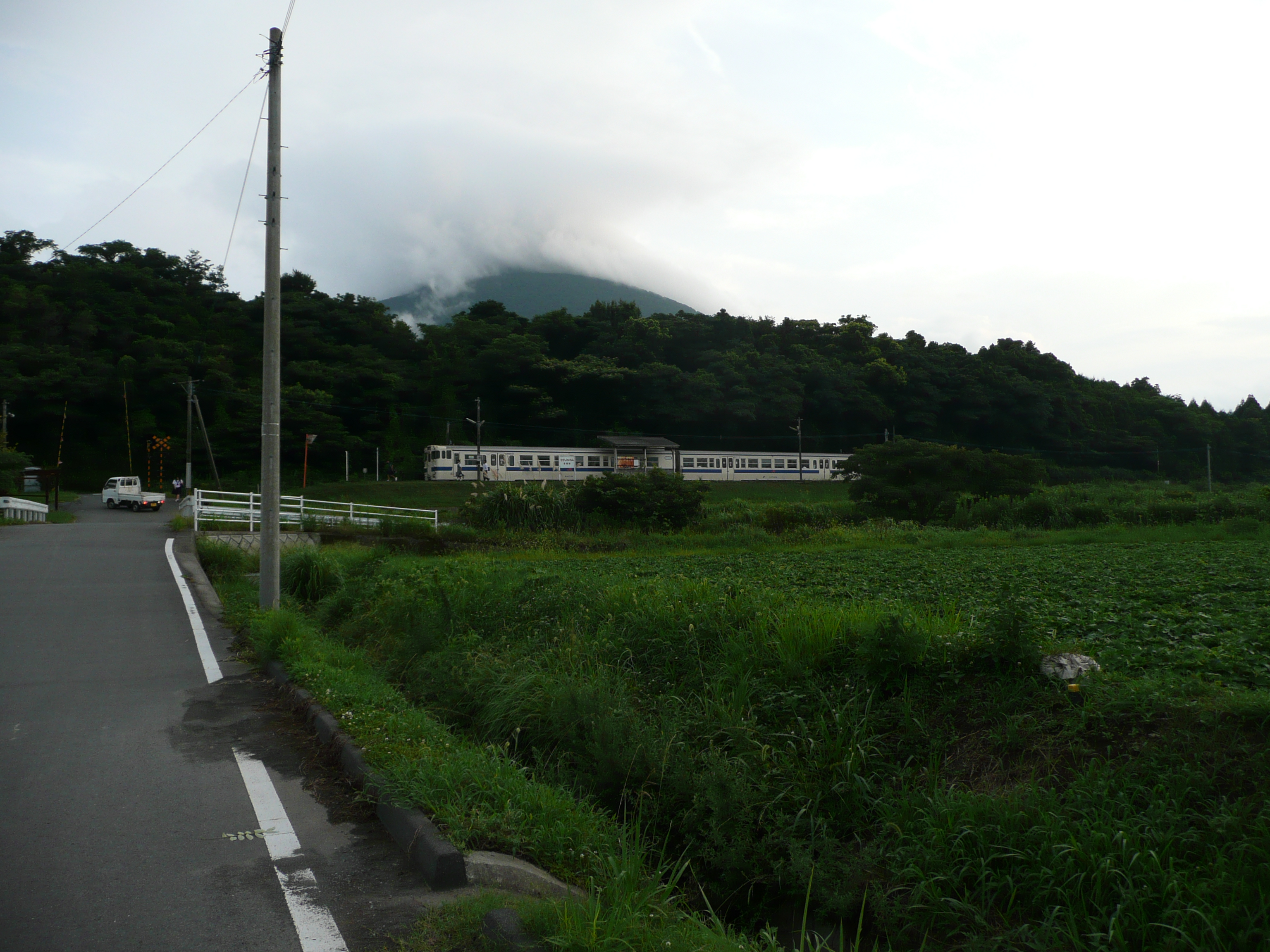 Train at Higashi-Kaimon Station